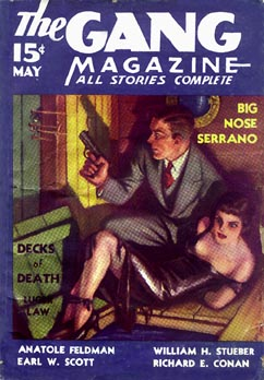 Cover of the pulp magazine The Gang Magazine (May 1935, vol. 1, no. 1) featuring "Big Nose Serrano" and "Decks of Death". This magazine lasted only three issues before cancellation.